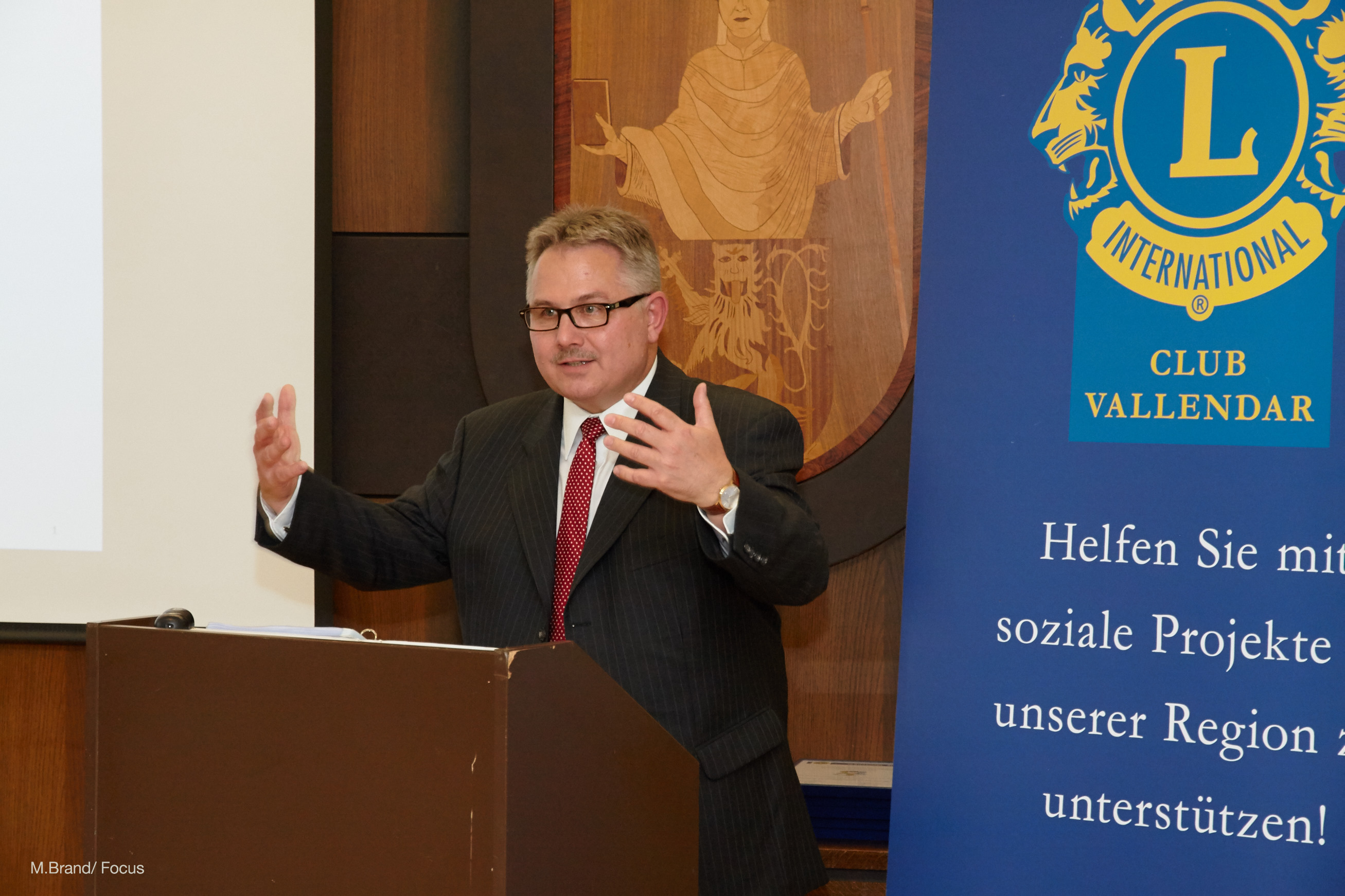 Citizens Project Award 2015 of the Lionsclub, award by Adolf T. Schneider, 2016.